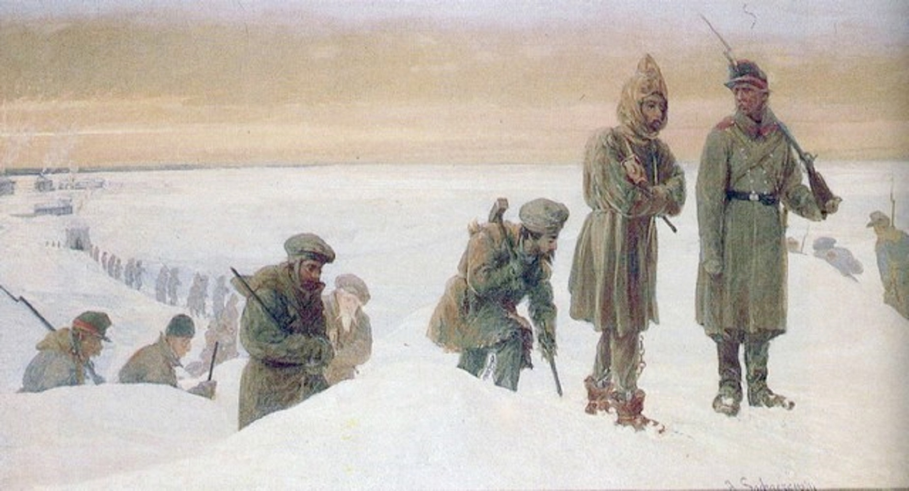 A painting by Aleksander Sochaczewski showing Polish exiles in Siberia. The person standing right next to the guard is Polish Saint Rafał Kalinowski.